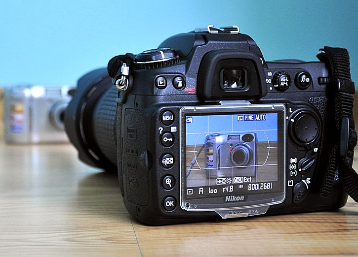 LiveView in D300